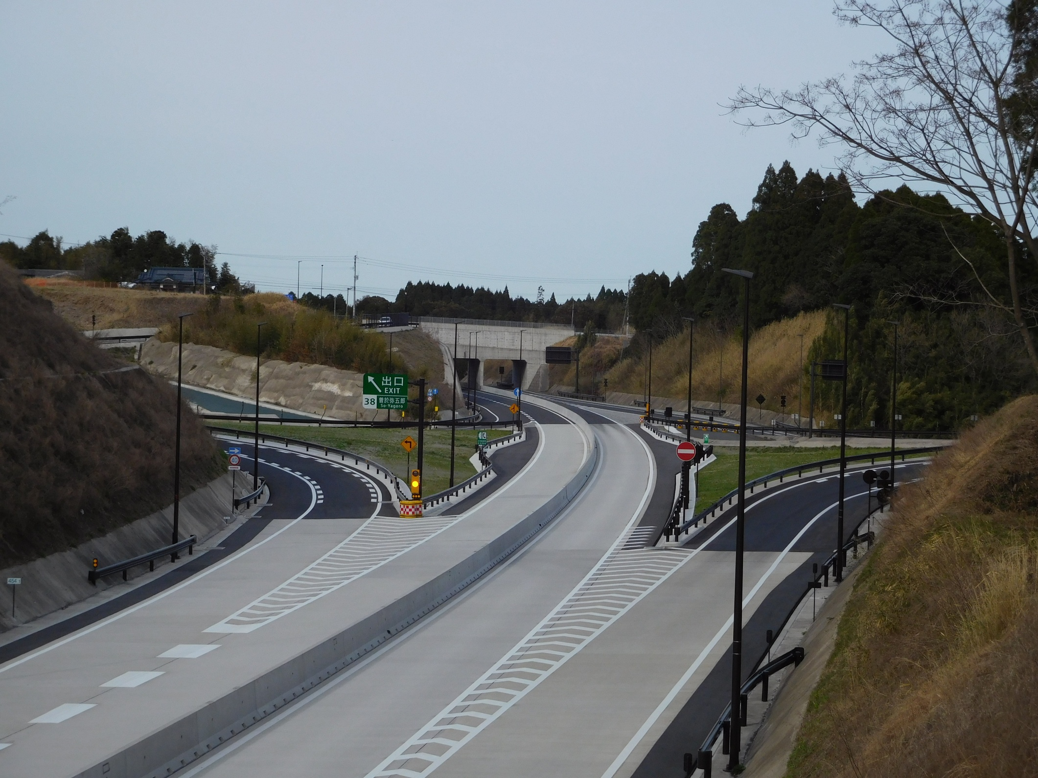 Soo-Yagoro Interchange on the Higashi-Kyushu Expressway in Iwagawa, Soo City, Kagoshima Prefecture, Japan